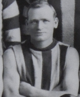 Photograph of Artie Dillon in 1920